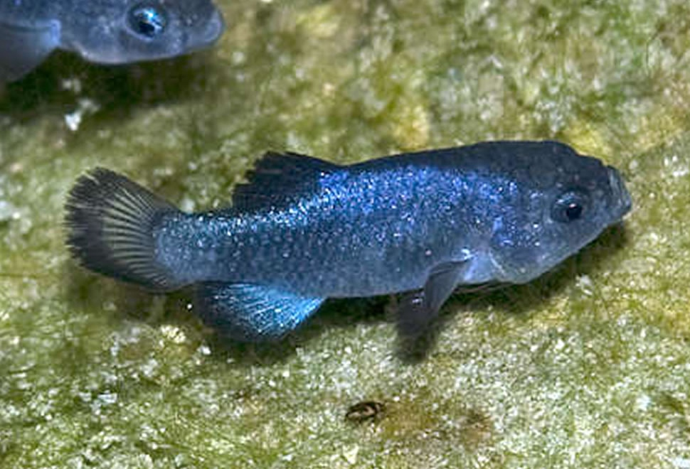 Devil's Hole pupfish (Cyprinodon diabolis Wales, 1930)